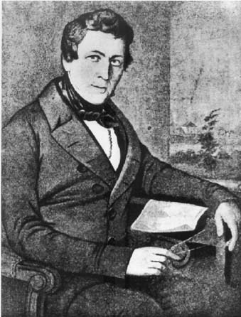 Swedish surveyor and county governor Per Henrik Widmark (1800-1861)